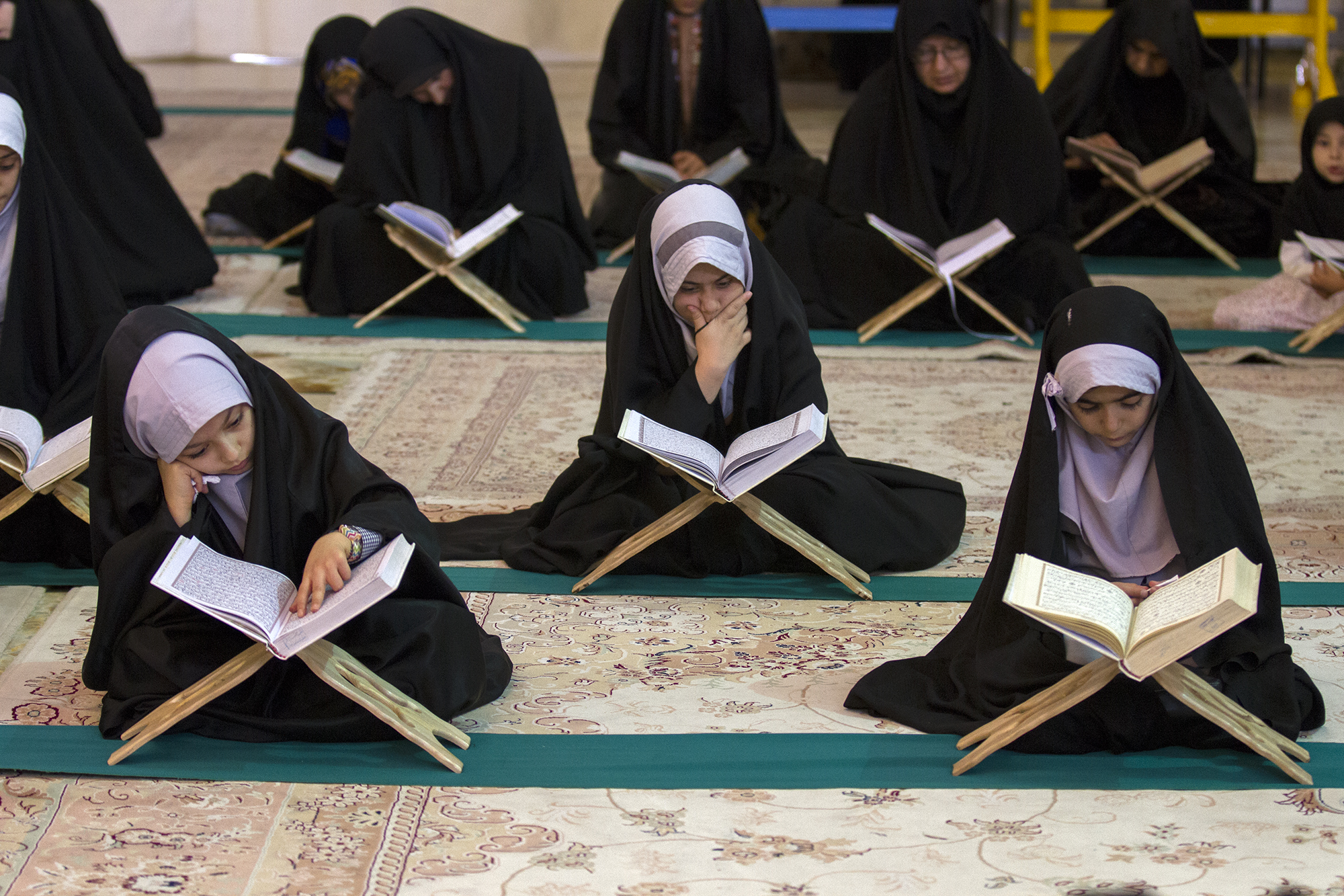 In Islam, Qira'at, which means literally the readings, terminologically means the method of recitation. Traditionally, there are 10 recognised schools of qira'at, and each one derives its name from a famous reader of Quran recitation. Photographer: Mostafa Meraji